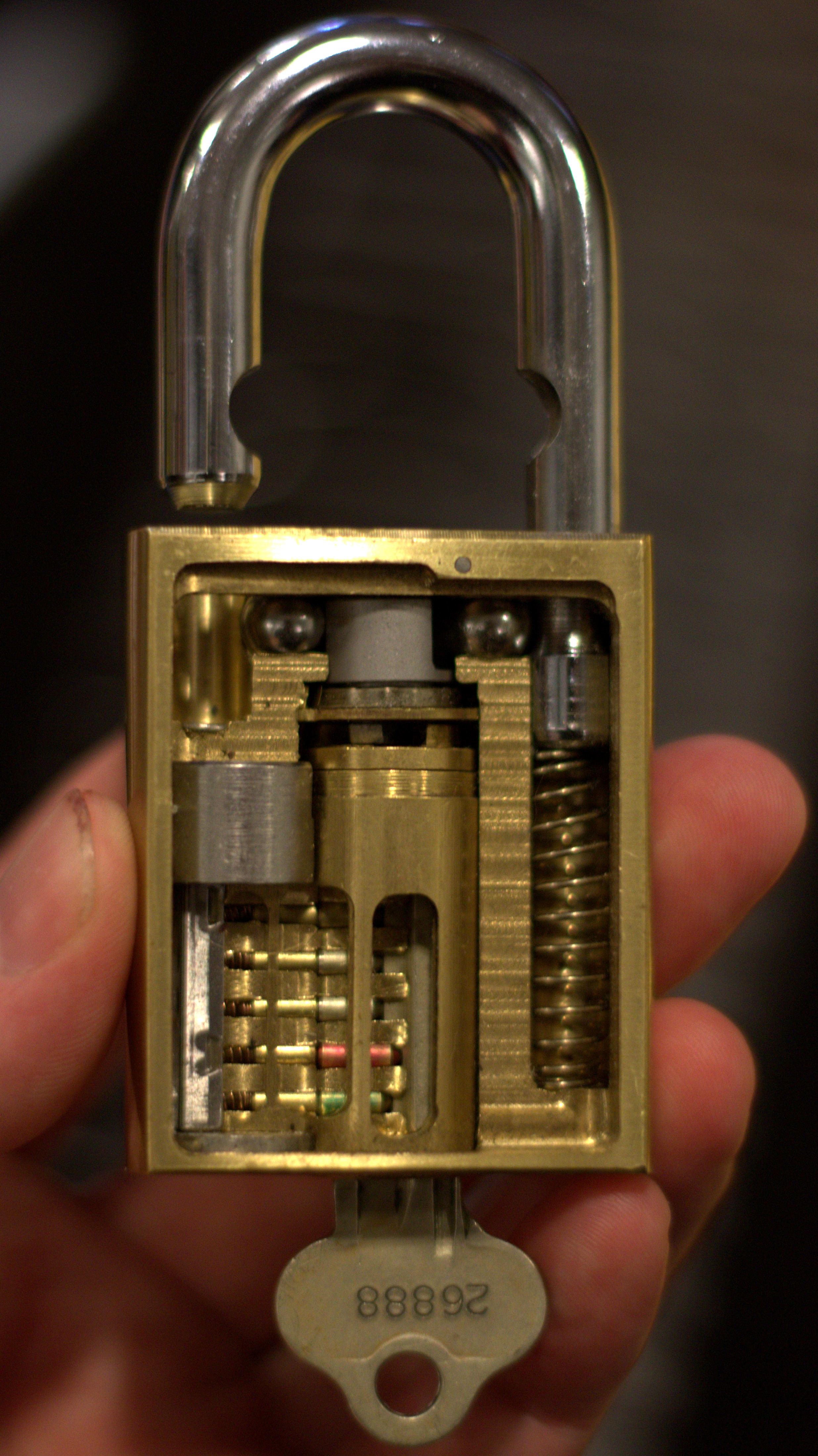 Double Ball Cutaway Padlock